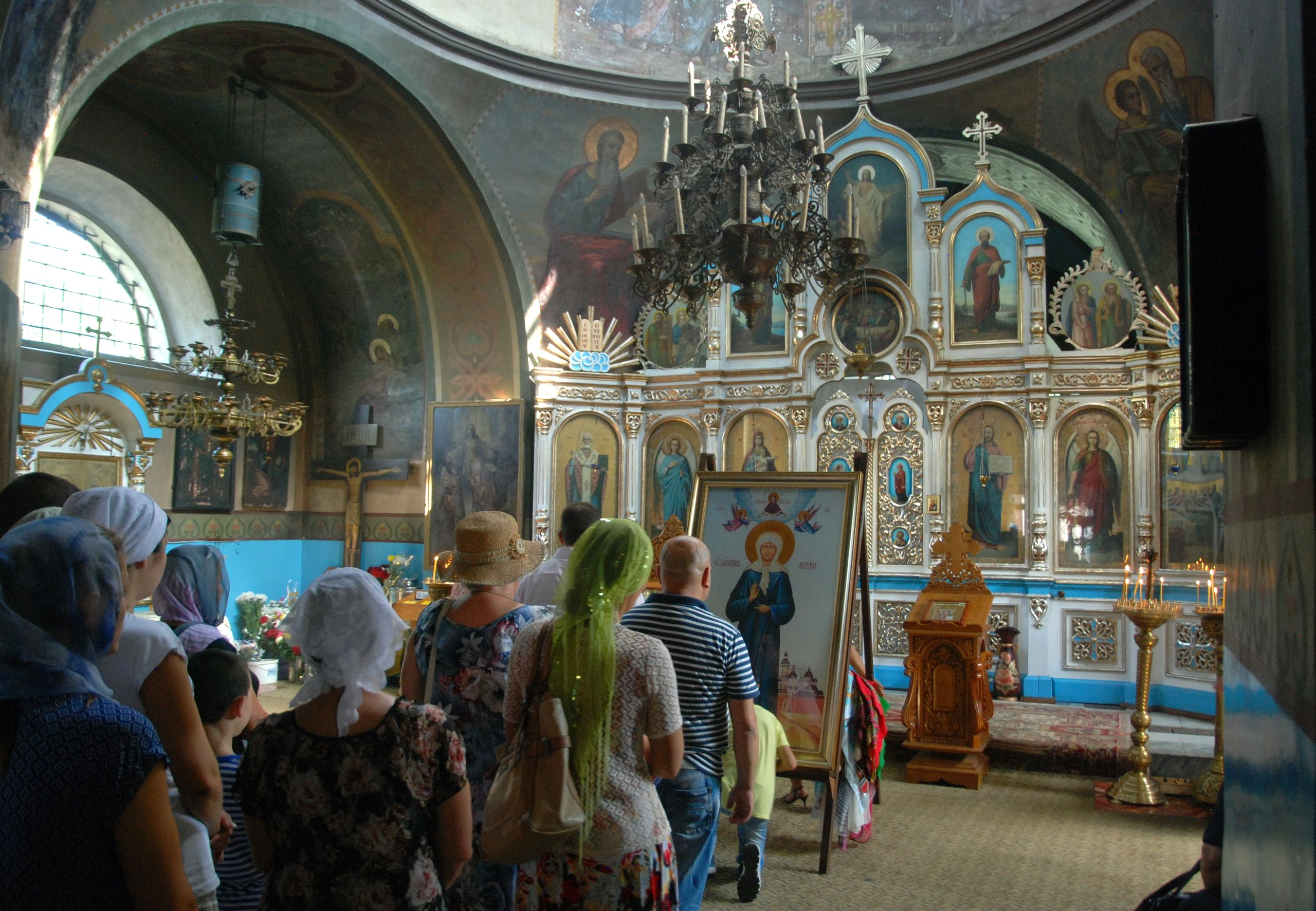 Soroca, Catedrala Adormirea Maicii Domnului